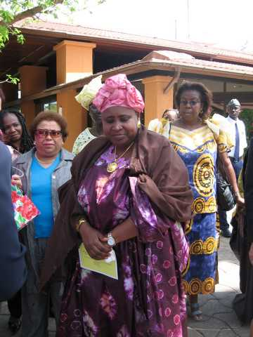 Isatou Njie Saidy